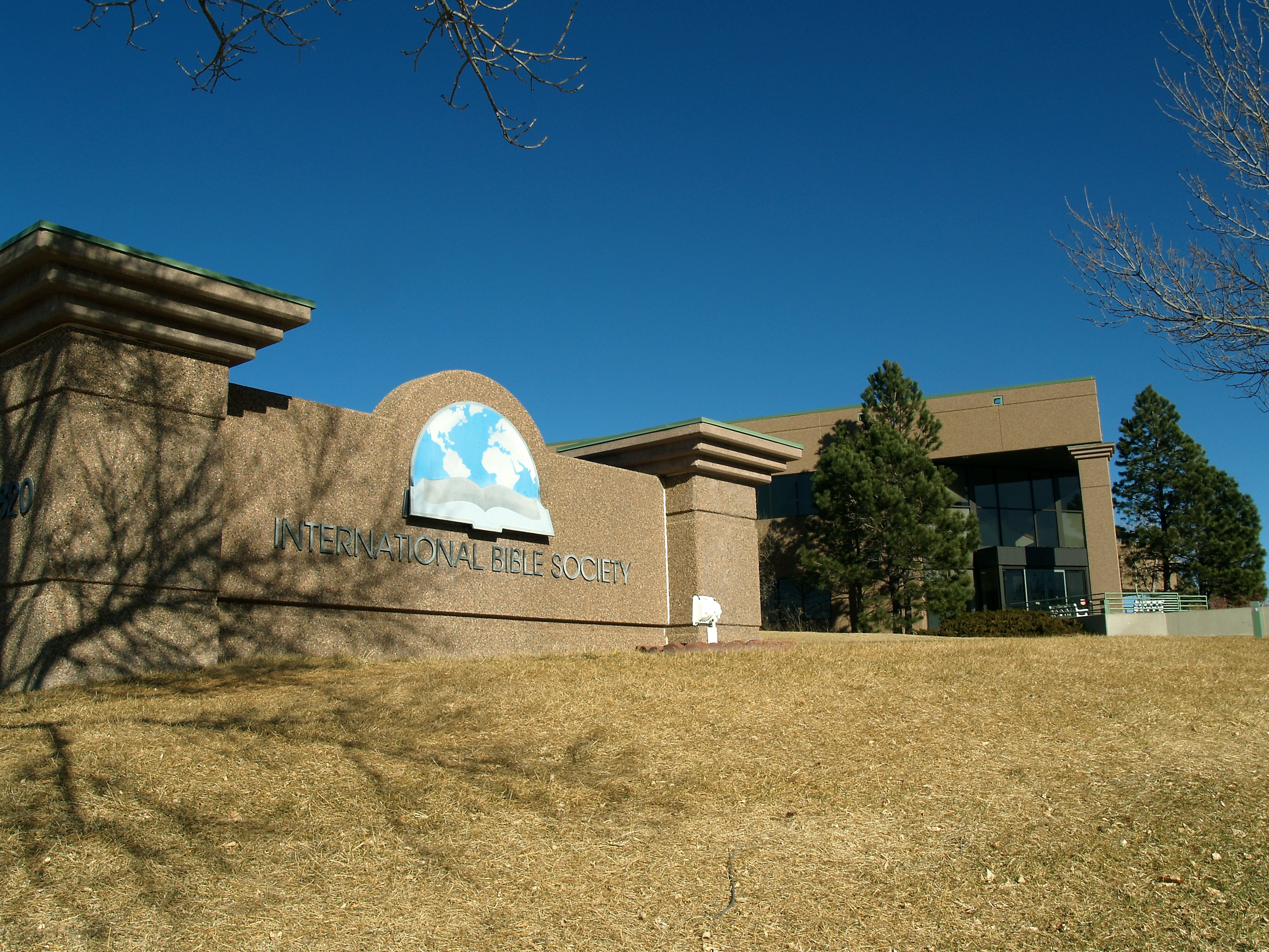 International Bible Society in Colorado Springs.